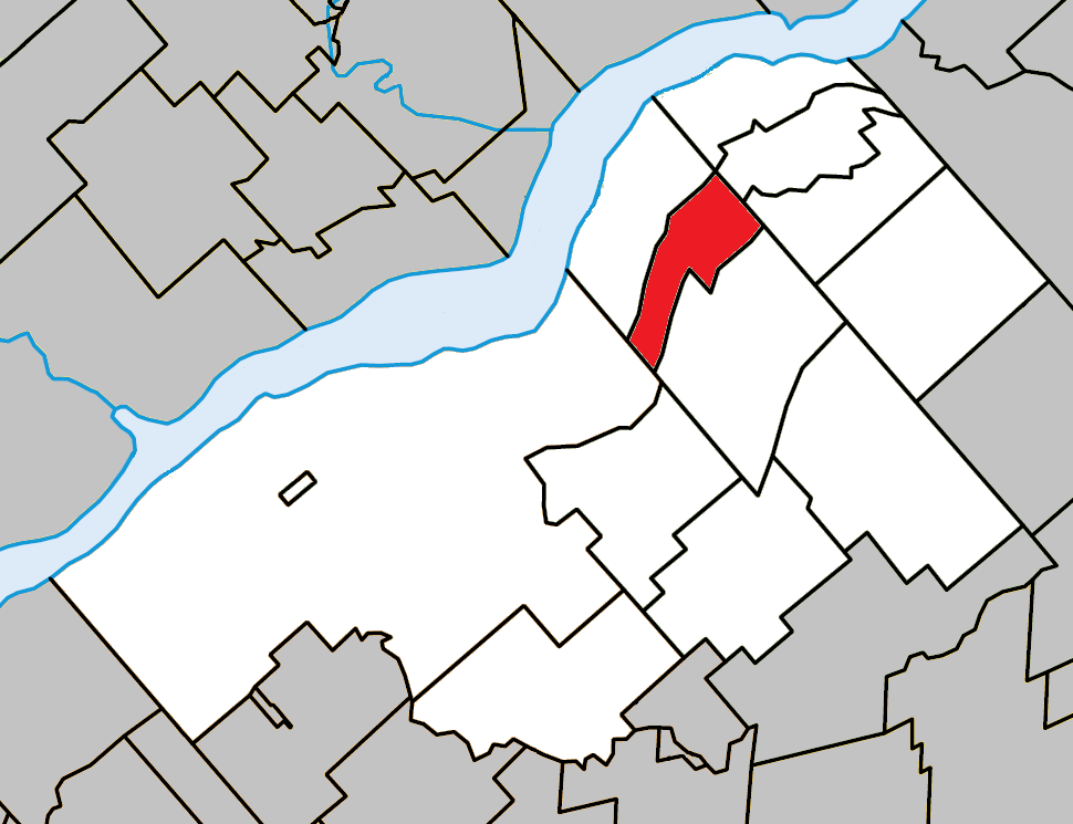 Location of Sainte-Cécile-de-Lévrard, Quebec within Bécancour Regional County Municipality.